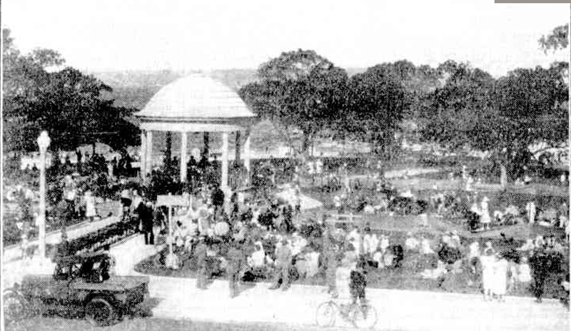 Balmoral Beach Rotunda, 1932. Group of people listening to a brass band.